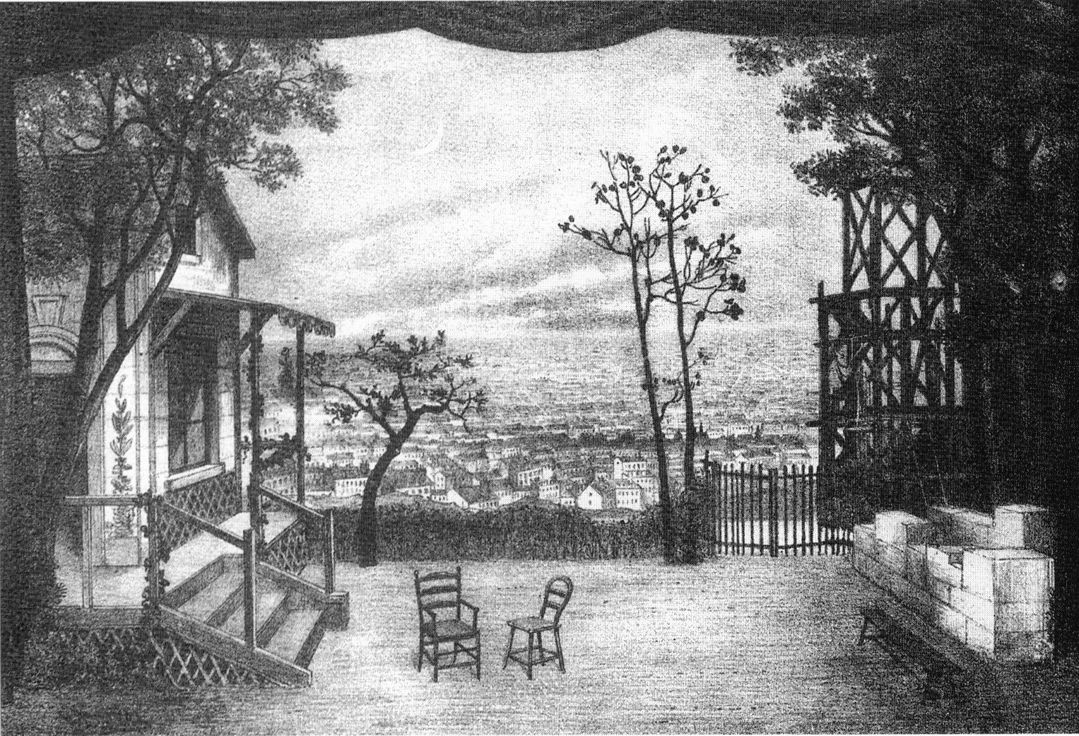 Gustave Charpentier - Louise - Setting by Vizentini, Paris 1900, 3.act